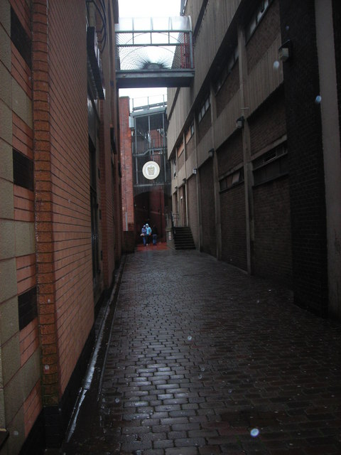 The unnamed passageway between the Forum 28 arts centre and Wilkinson's Hardware Store